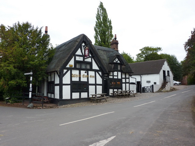 Photograph of the White Lion Inn, Barthomley, Cheshire